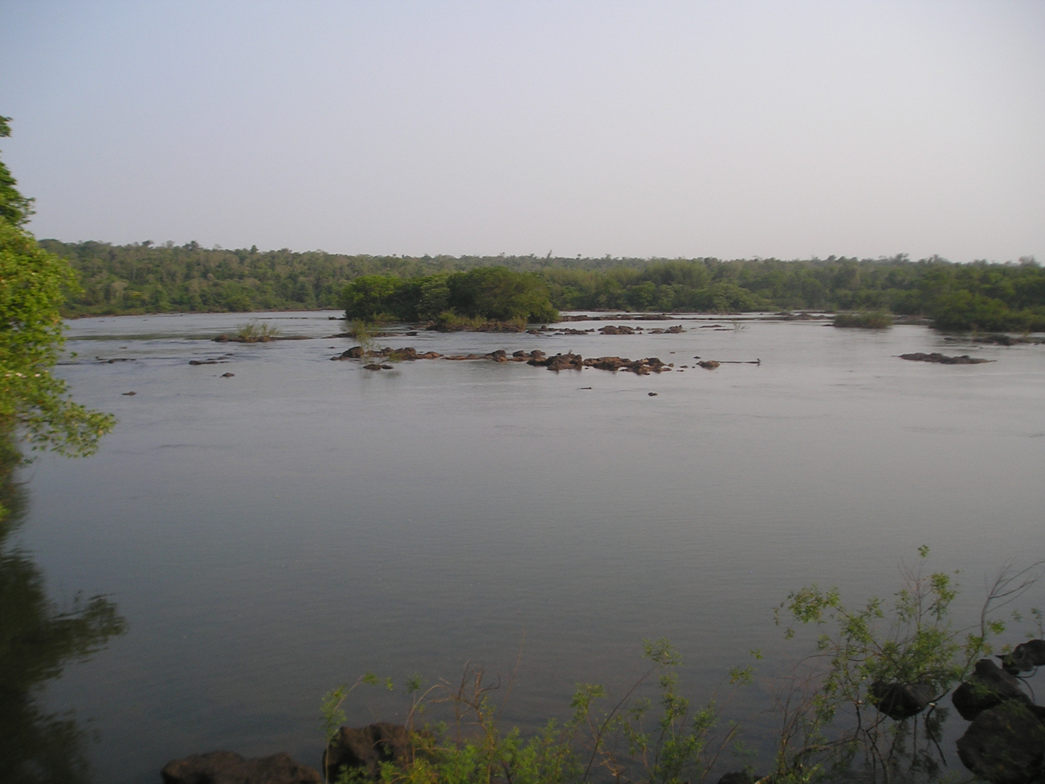 River Iguaçu/Iguazú, just before it descends down the Garganta del Diablo set of Iguassu Falls. Iguazu Falls, in Misiones (Argentina).